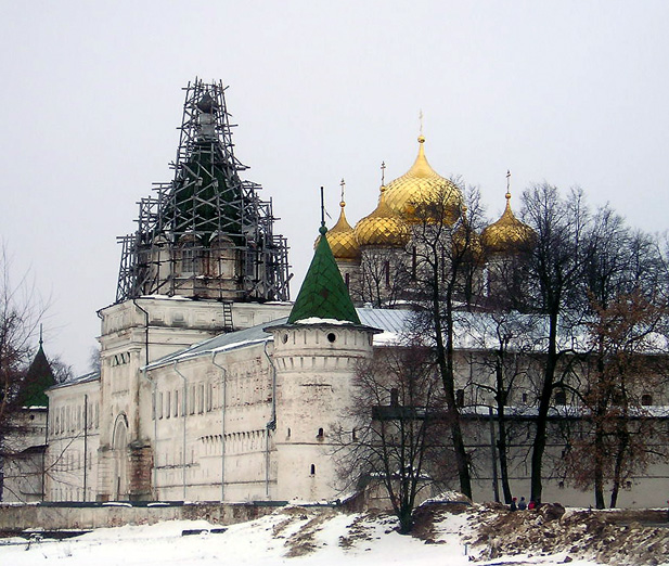 Kostroma. The Hypatian (Ipatiev) Monastery (16th and 17th cent.)